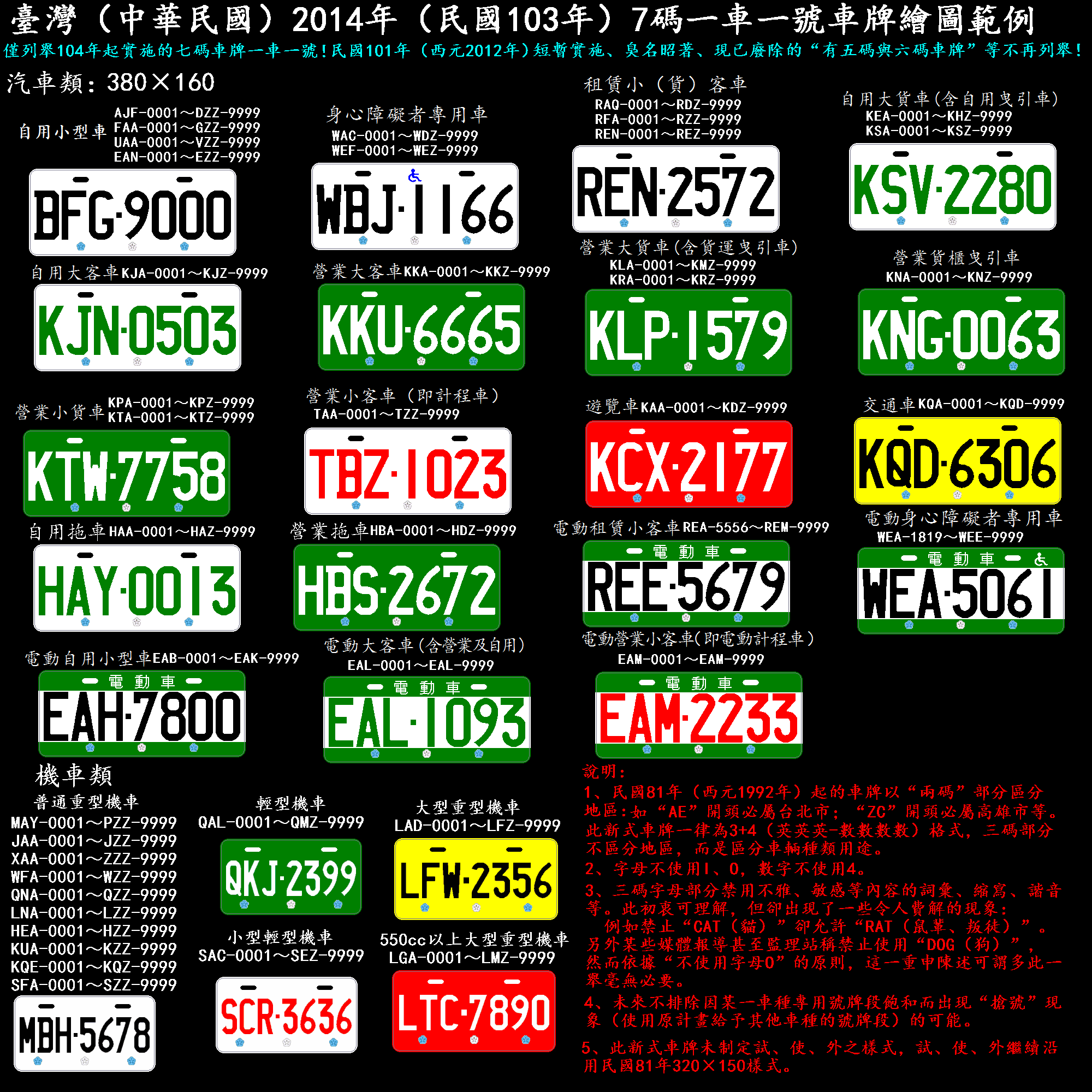 I made these Taiwan Plate templates for Model Cars. But it can be references for real world plate data.